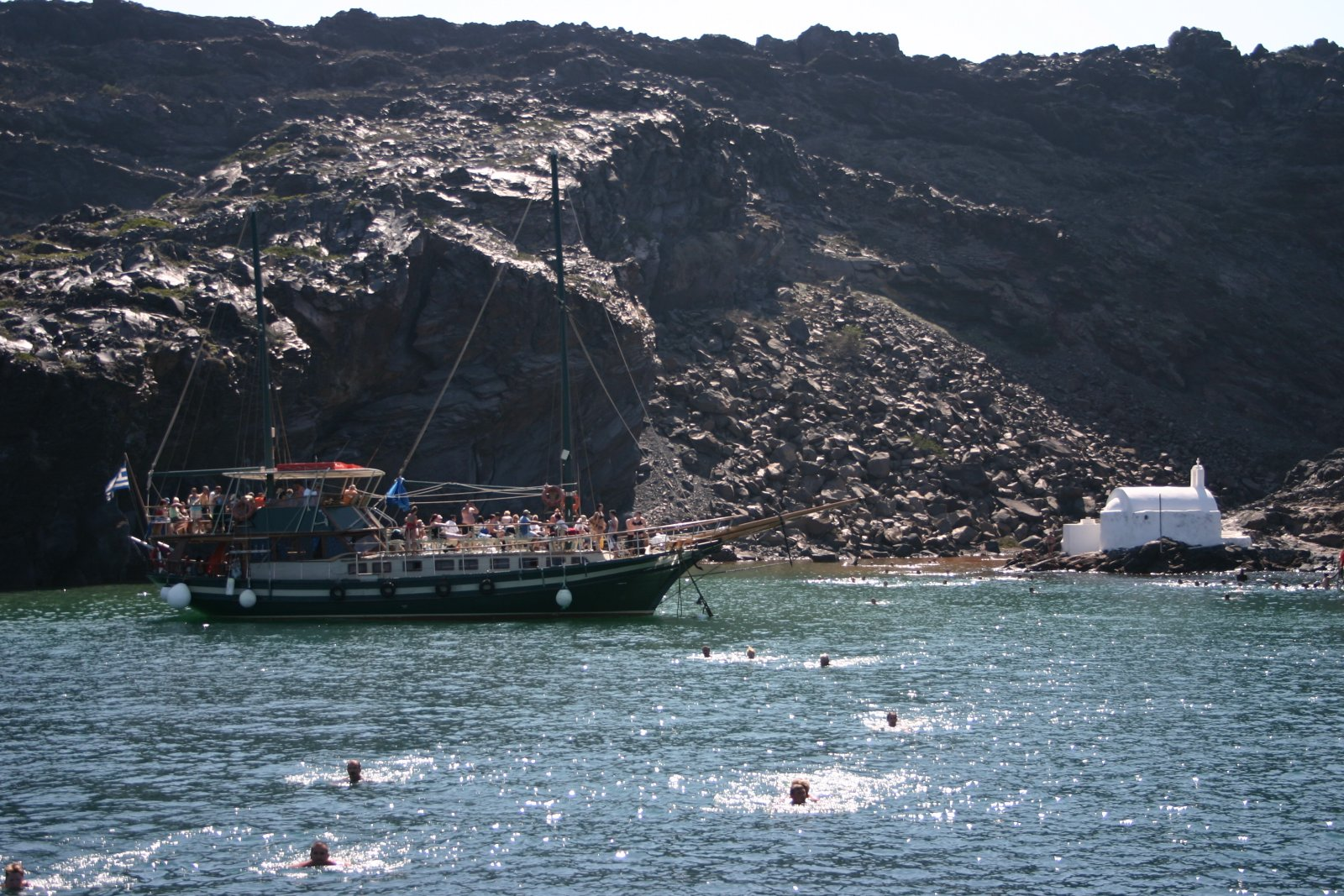 take a bath on the hot springs at Palea Kameni on Santorini